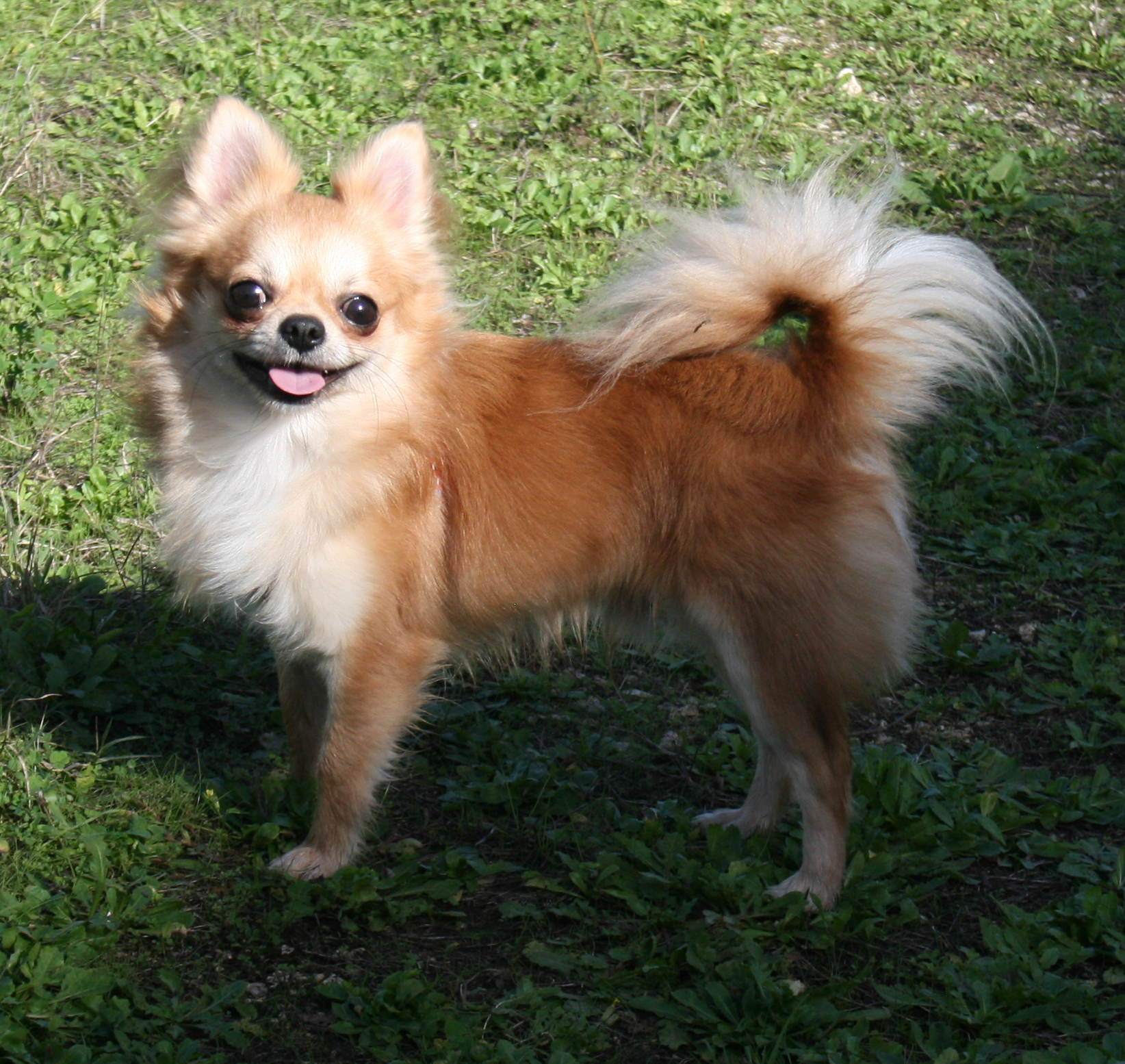 Dilan agradable dog